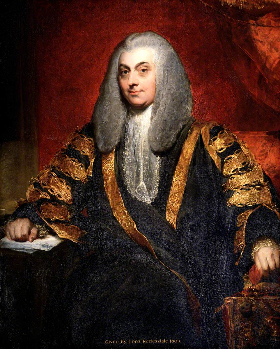 Portrait of Sir John Mitford (1748-1830), Speaker of the House of Commons